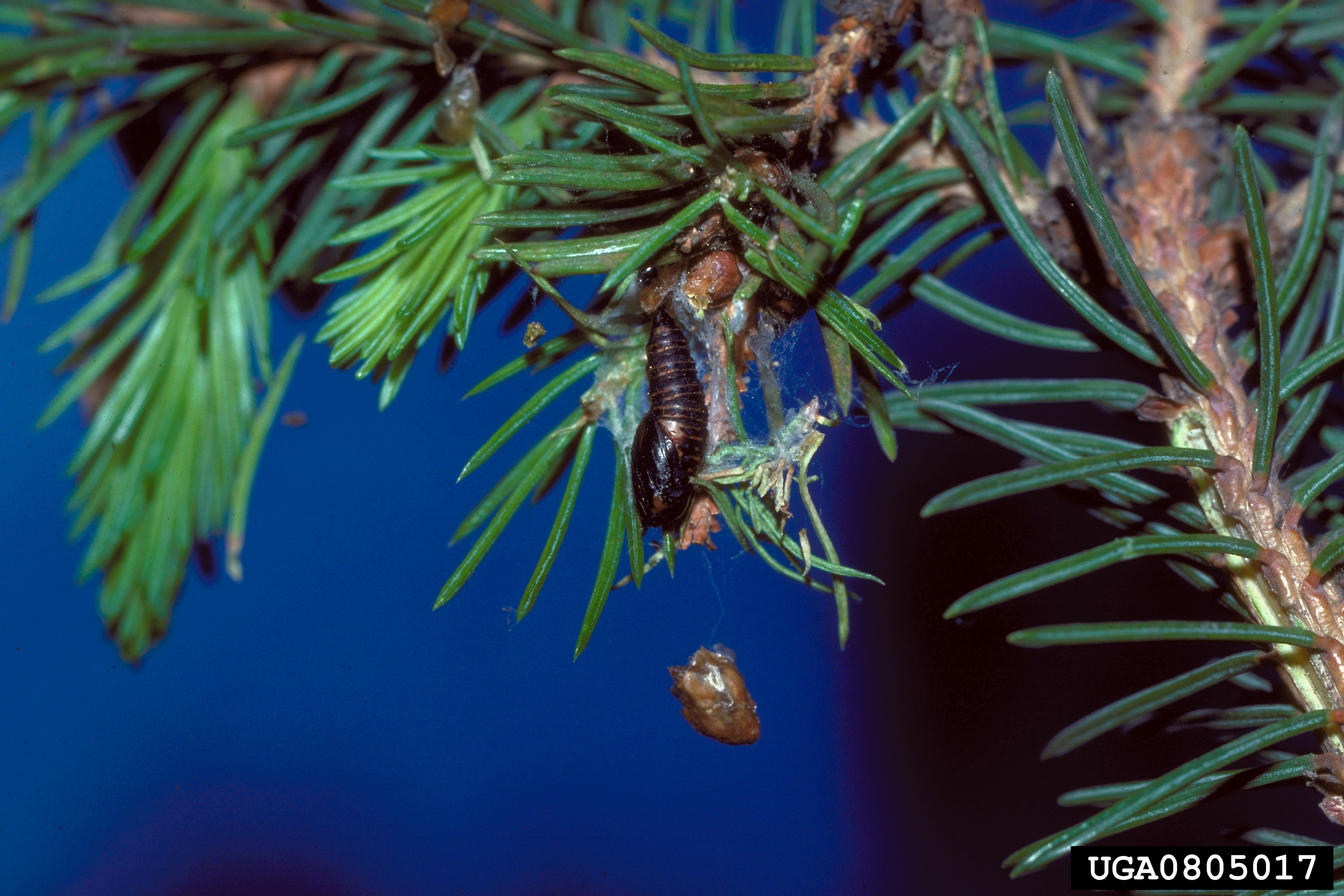 Choristoneura orae puppa